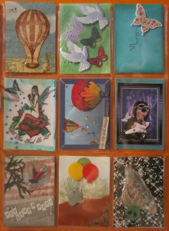 A set of Artist Trading Cards